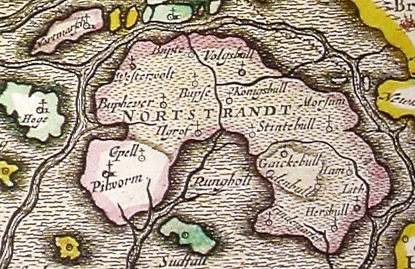 Strand before and After Burchardi flood